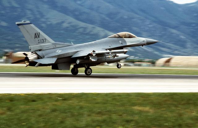 A right side view of a US Air Force F-16C Fighting Falcon aircraft of the 31st Fighter Wing landing upon returning from a mission in support of NATO airstrikes against the Bosnian Serbs. This was the aircraft flown by Capt. Robert Wright on 28 February 1994 when he shot down 3 Serb J-21 Jastreb attack jets. (Released to Public)